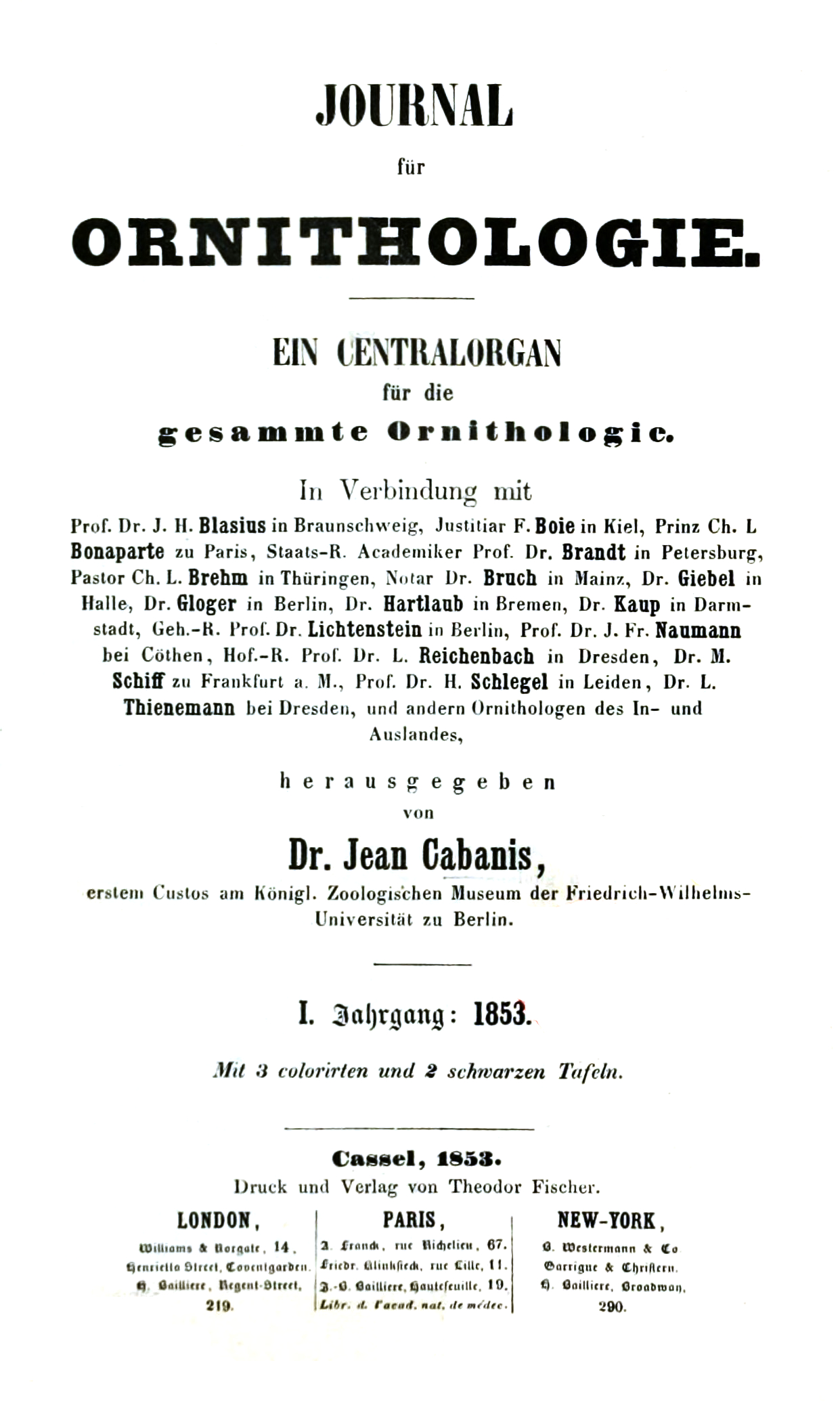 Cover of the first issue of the Journal fur Ornithologie 1853